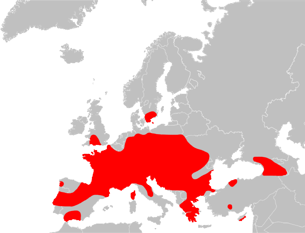 Distribution map of Myotis bechsteinii.